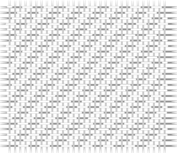 Diagram of the structure of a balanced 2/2 twill textile.